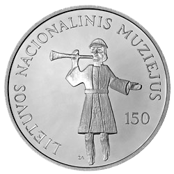 50 litas coin dedicated to the 150th anniversary of the National Museum of Lithuania Silver Ag 925 Quality proof Diameter 38.61 mm Weight 28.28 g The words on the edge of the coin: PRO PUBLICO BONO Designed by Antanas Zukauskas Mintage 1,500 pcs Issued 2005 The coin was minted at the state enterprise Lithuanian Mint.